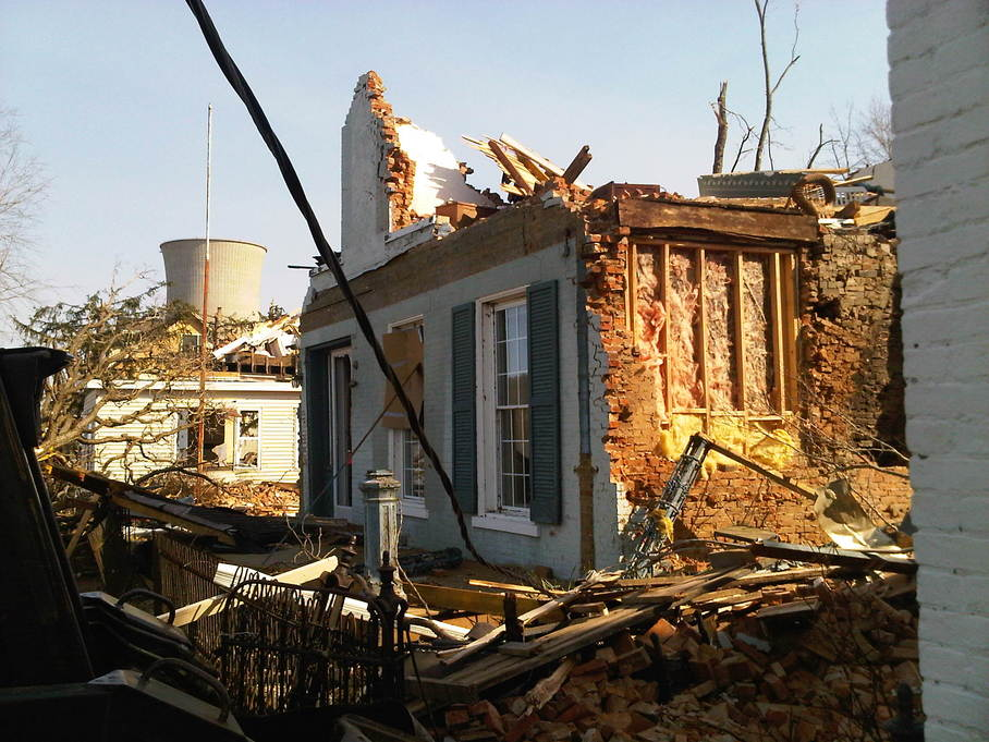 EF3 damage to a two story brick home in Moscow, Ohio.